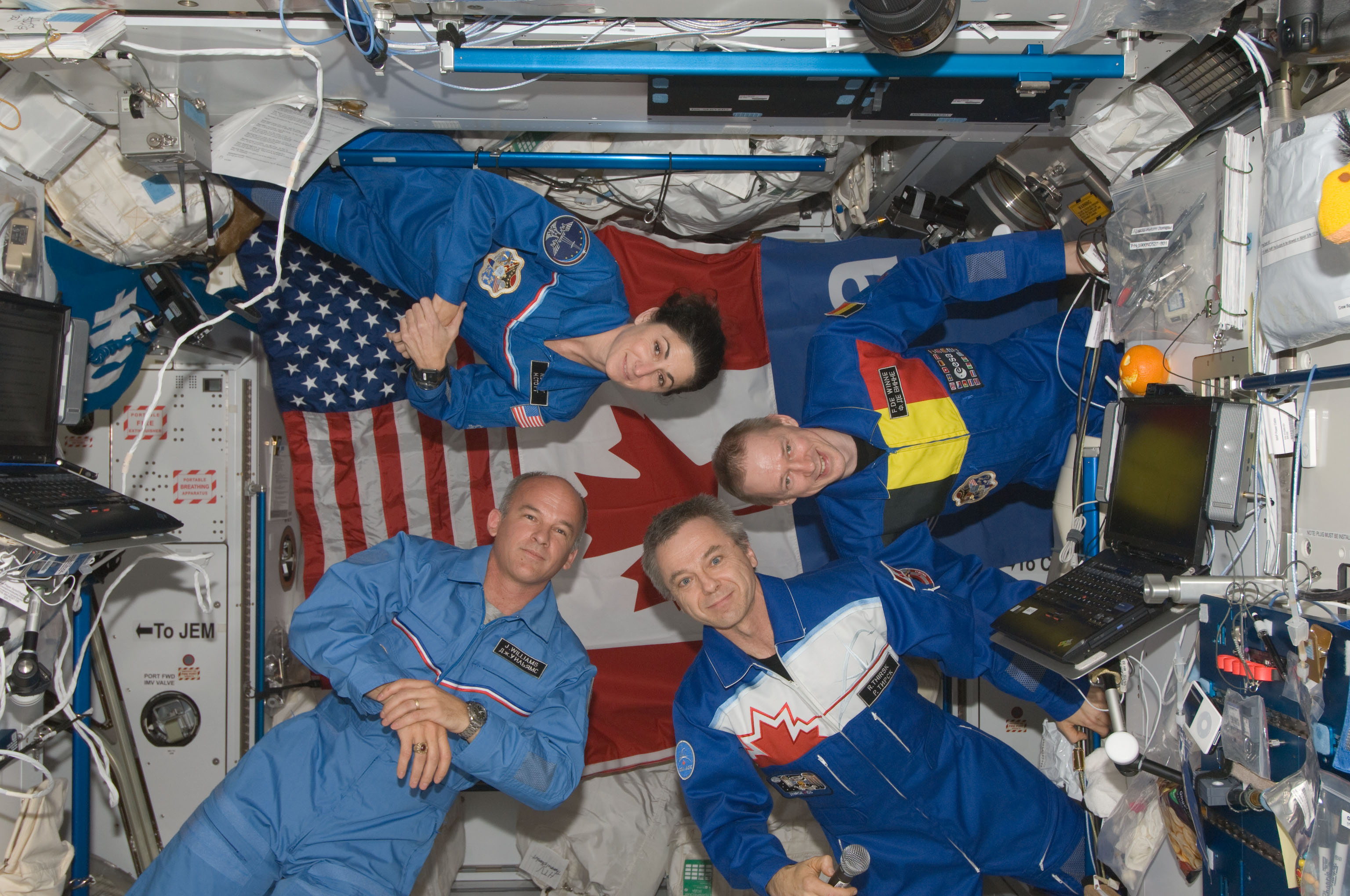 European Space Agency astronaut Frank De Winne (right), Expedition 21 commander; along with Canadian Space Agency astronaut Robert Thirsk (bottom right), NASA astronauts Jeffrey Williams and Nicole Stott, all flight engineers, are pictured during an educational event set up by the Canadian Space Agency for the Minister of Education at Mount St. Vincent University in Halifax, Nova Scotia, Canada, with approximately 100 students, teachers, parents and province schools participating virtually throughout Nova Scotia.